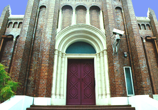 York Street Studio Two. [Old Radio New Zealand, TVNZ Studios on Shortland Street]